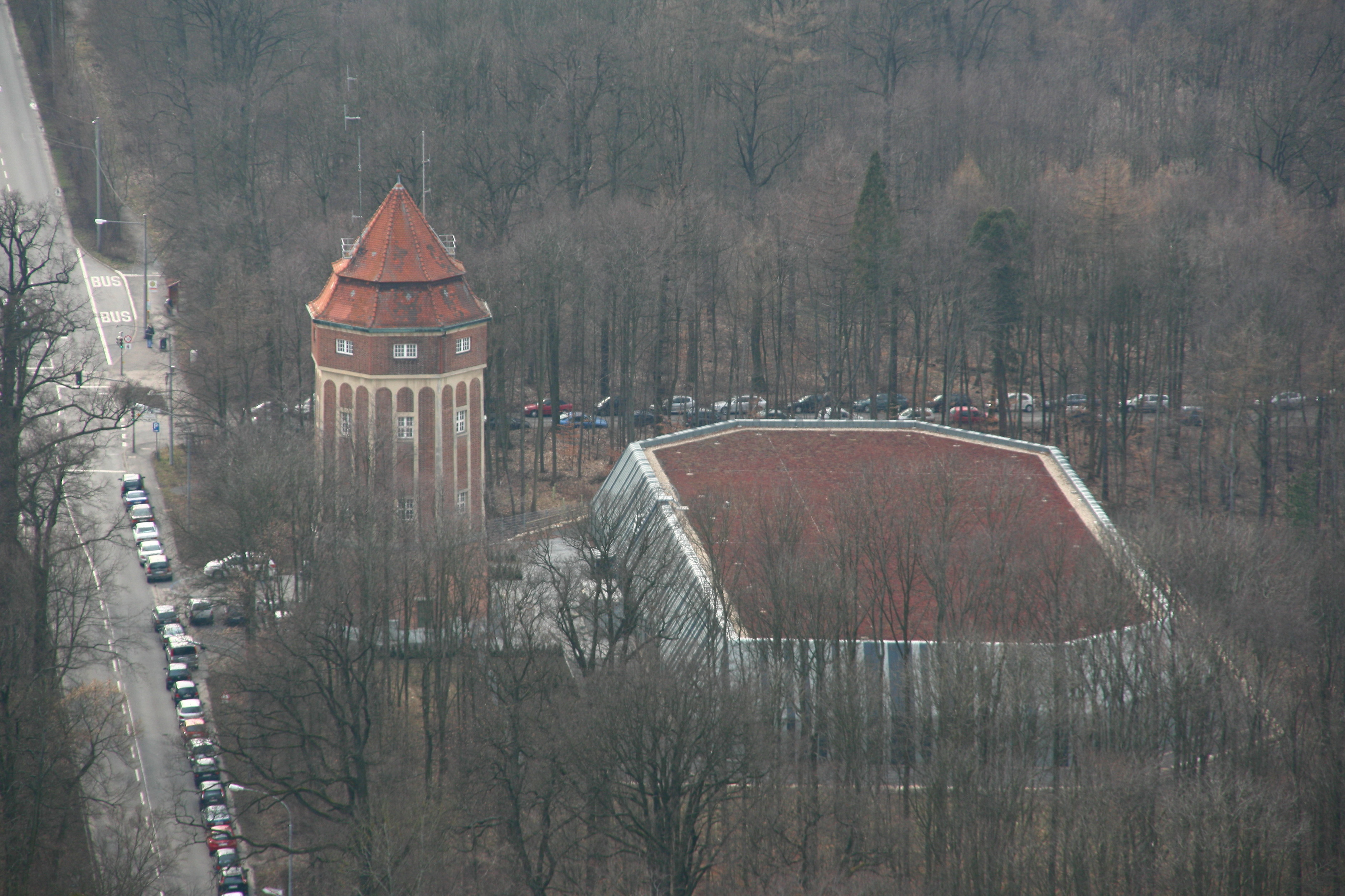 Stuttgart-Degerloch water tower viewed from the Stuttgarter Fernsehturm.